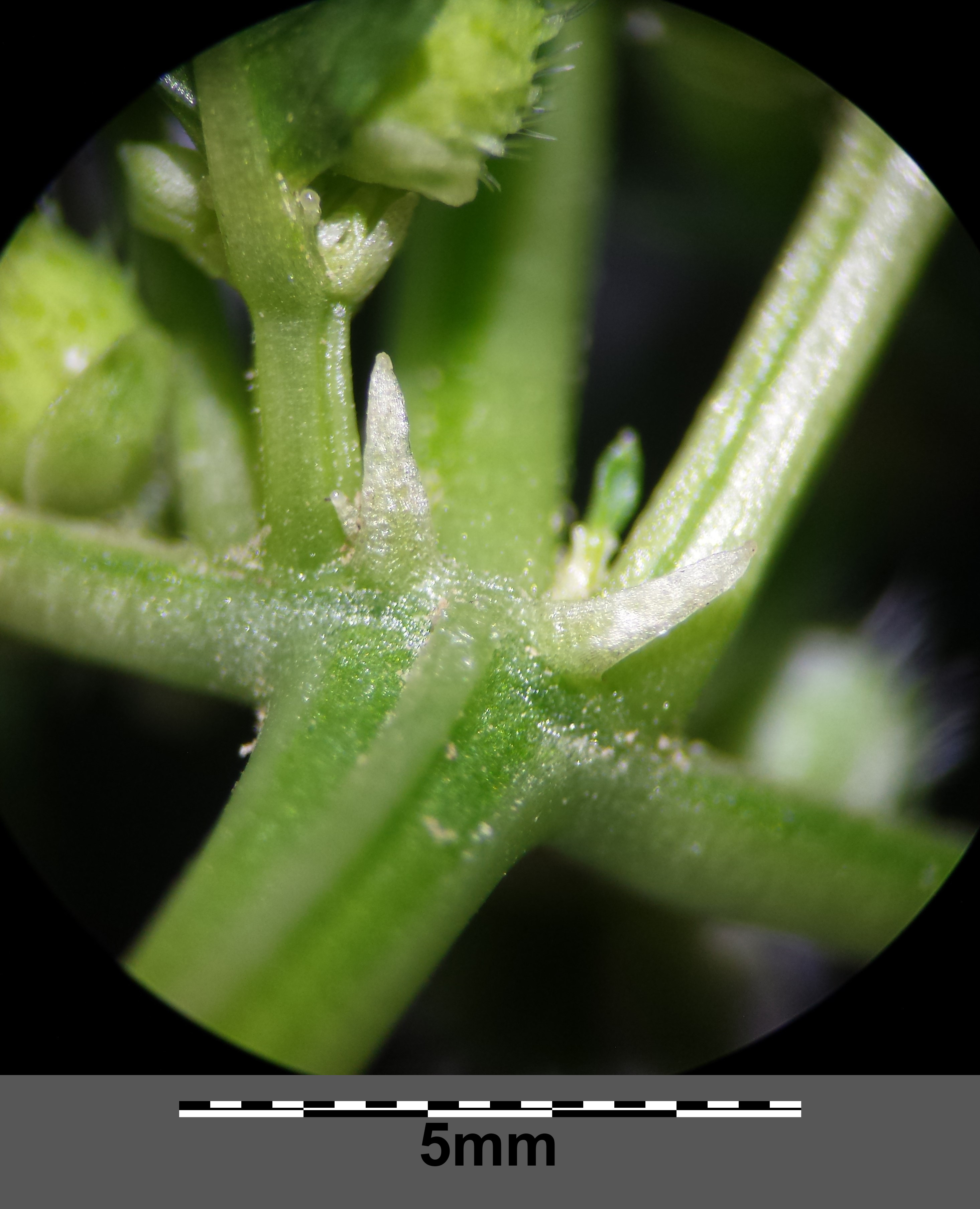 Stem with stipules (♀ plant) Taxonym: Mercurialis annua ss Fischer et al. EfÖLS 2008 ISBN 978-3-85474-187-9 Location: near Niederhollabrunn, district Korneuburg, Lower Austria - ca. 325 m a.s.l. Habitat: wine yard